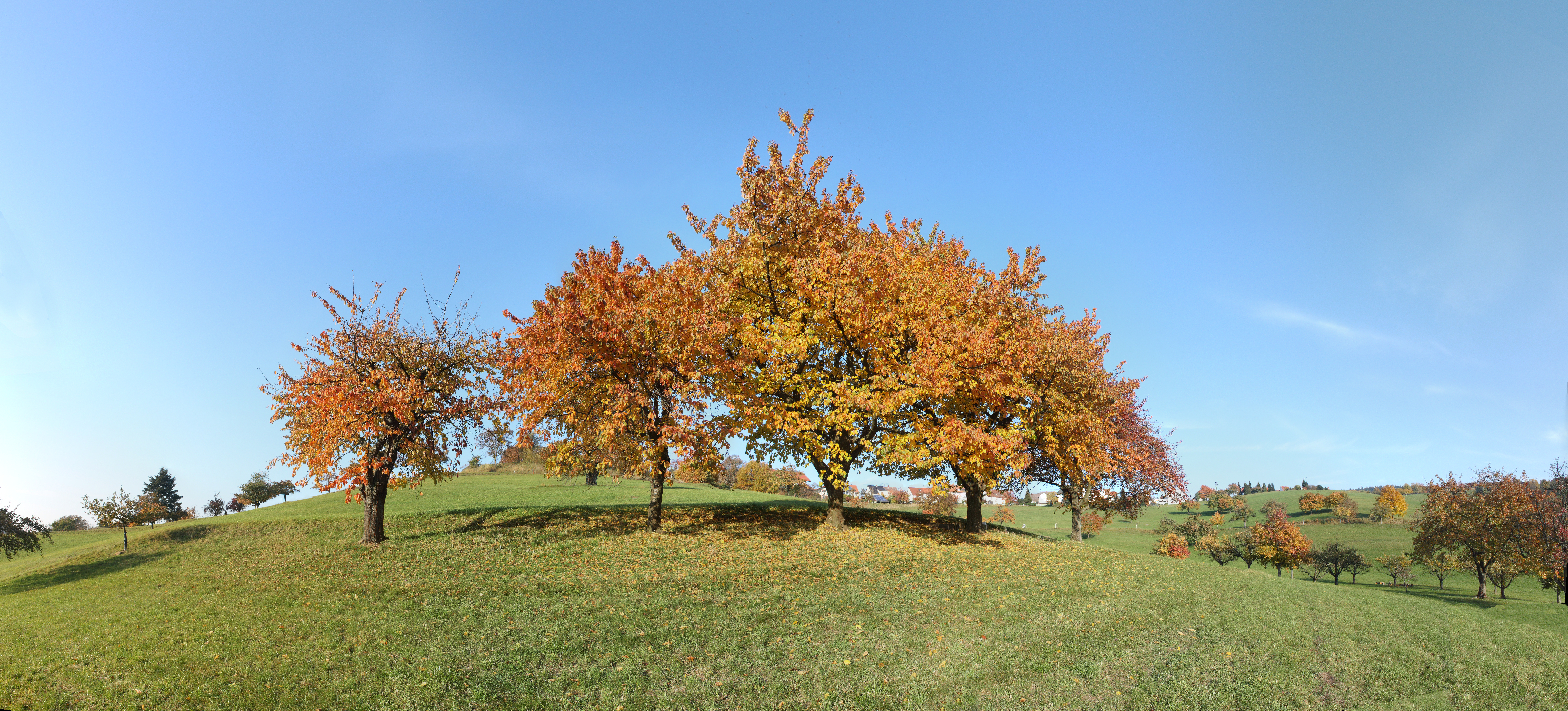 Yellow apple trees in fall. near Apfelblütenweg (Apple bloom trail) between Rippenweiher and Heiligkreuz.